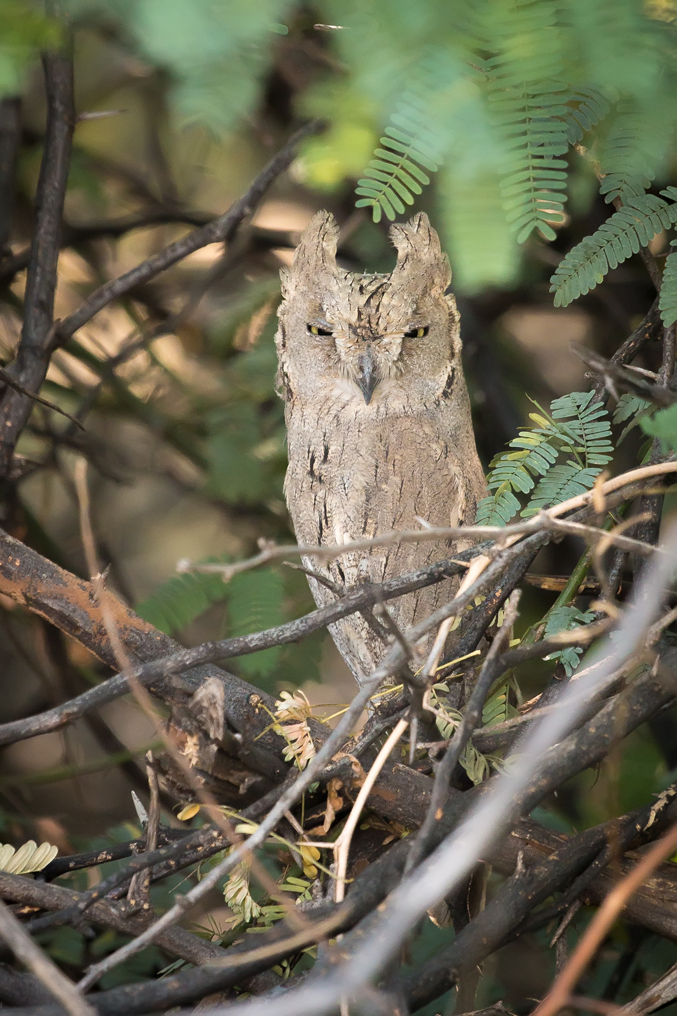 Individual at the Little Rann of Kutch